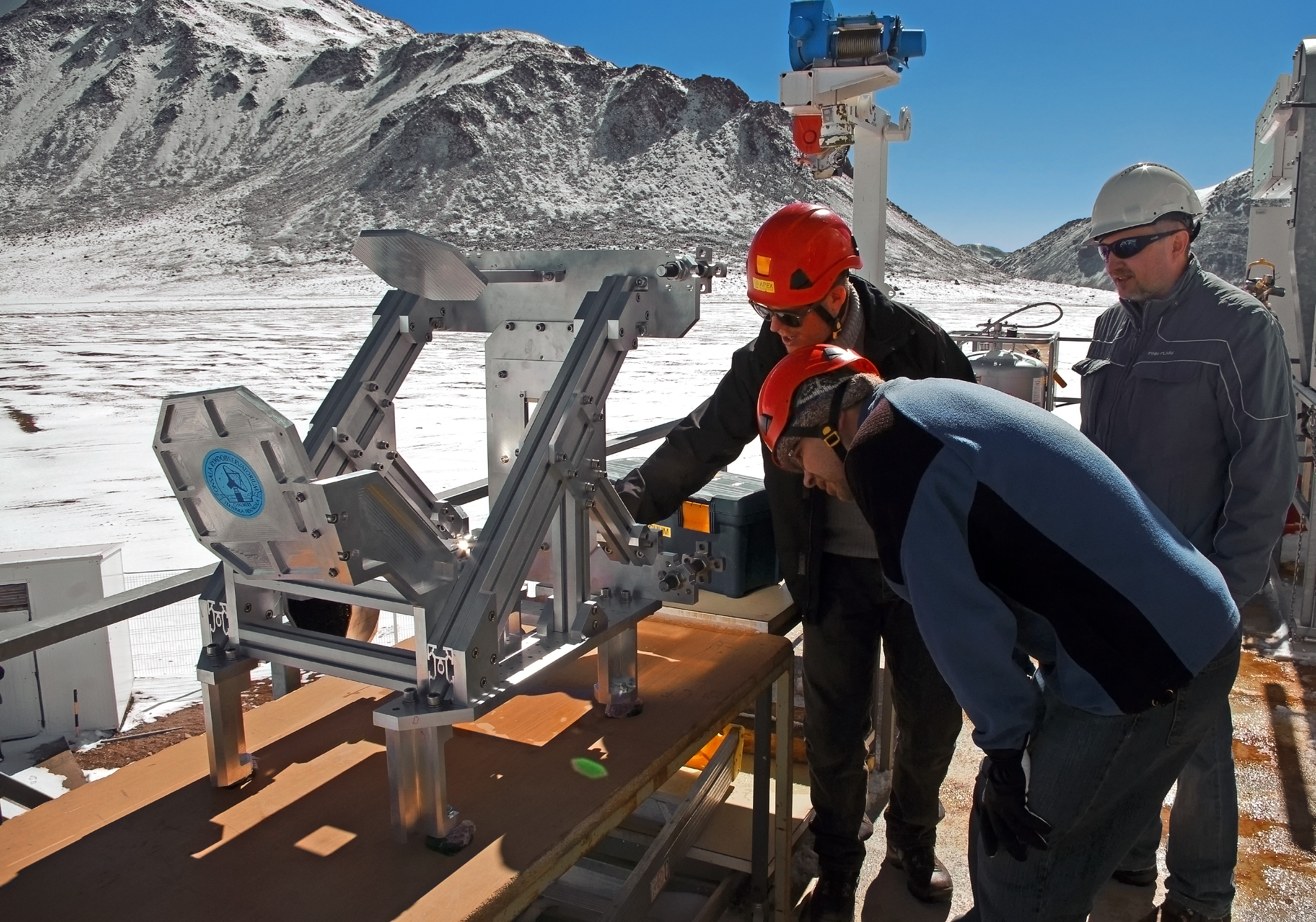 A new instrument attached to the 12-metre Atacama Pathfinder Experiment (APEX) telescope at 5000 metres above sea level in the Chilean Andes is opening up a previously unexplored window on the Universe. The Swedish–ESO PI receiver for APEX (SEPIA) will detect the faint signals from water and other molecules within the Milky Way, other nearby galaxies and the early Universe. In this picture engineers from Onsala Space Observatory's Group for Advanced Receiver Development examine the top part of SEPIA before installation at APEX. On the left Mathias Fredrixon and Denis Meledin (leaning down), and behind them Igor Lapkin.